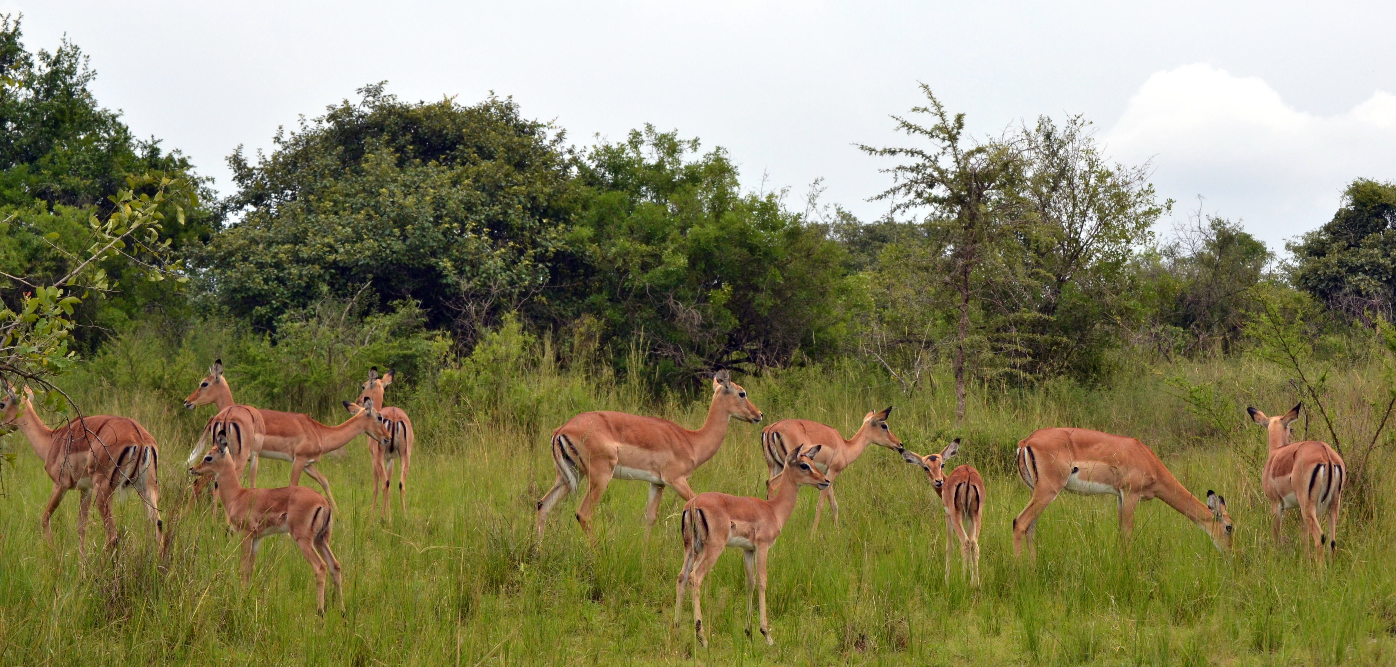 The impala game